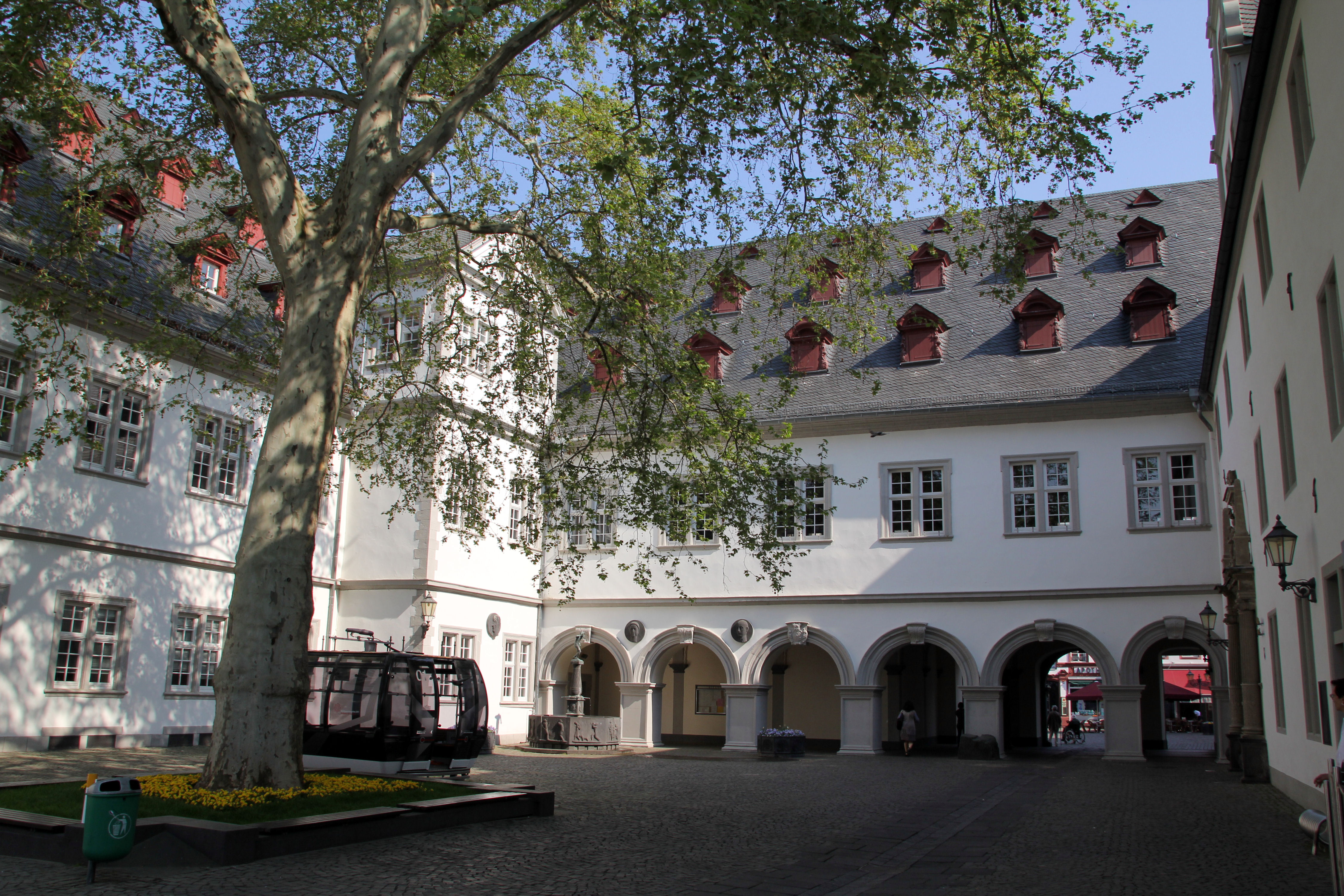 City hall of Koblenz